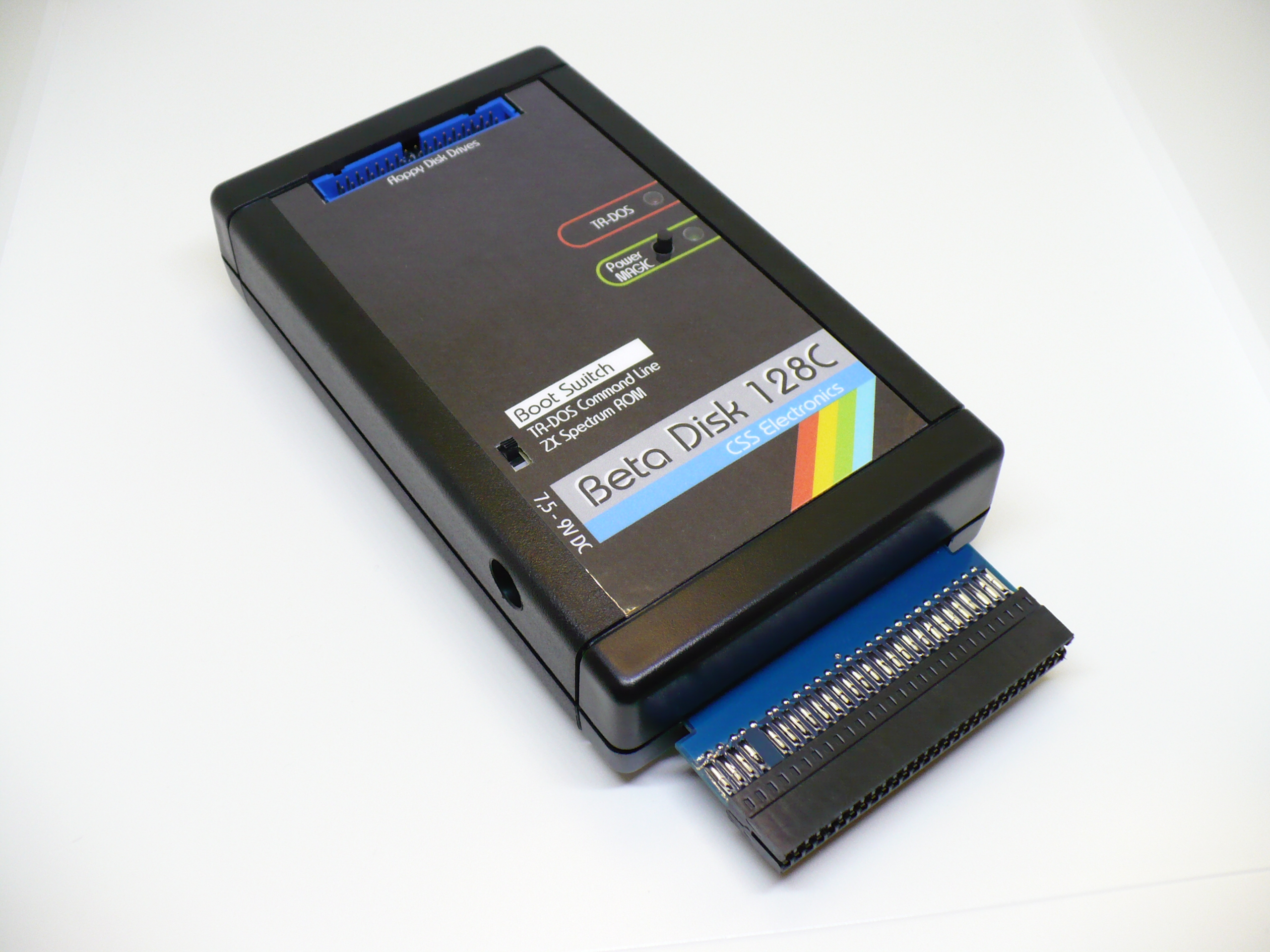 The Czech clone from 2018, the most popular floppy disk system for ZX Spectrum 48/128